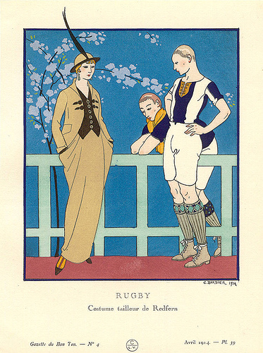 Woman wearing a pre-sportswear tailored costume in conversation with two rugby players. The woman's costume is by John Redfern, who was probably the first couturier to make clothing specifically for sport, and whose sports clothing became adopted as everyday wear by his clients in a precursor of what would become American sportswear (as distinct from active wear).